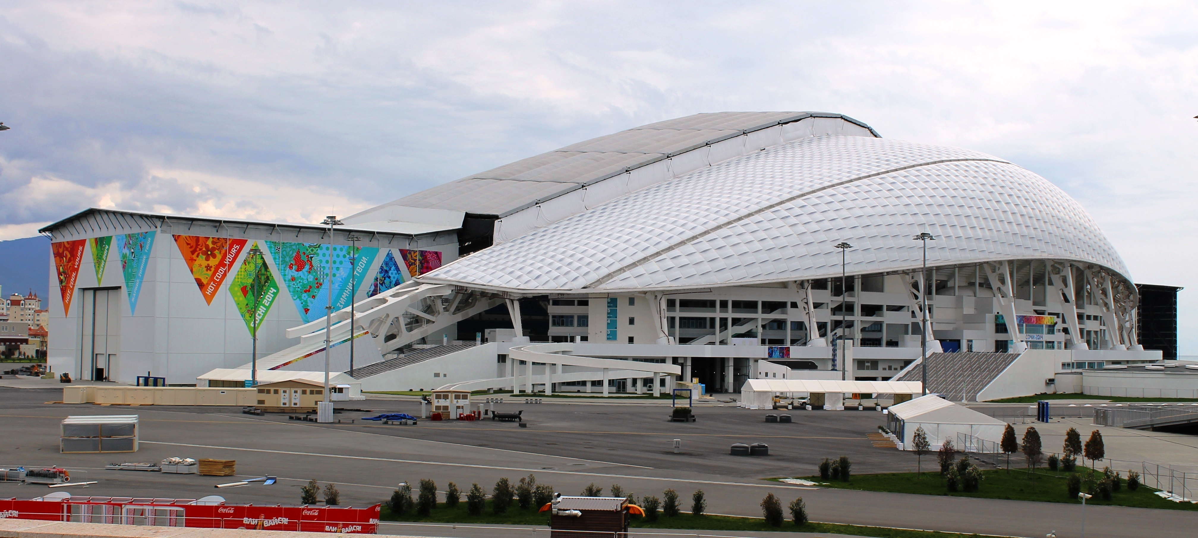 Olympic stadium "Fisht" in Sochi. It is constructed for the XXII Winter Olympic games in Sochi in 2014. It is located in Adler, in the Sochi Olympic Park.